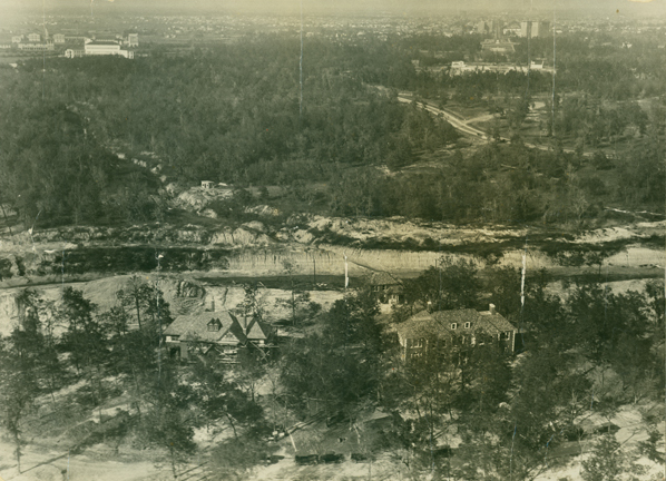 "This black and white photograph shows the area which eventually became the Texas Medical Center. Harris Gully, Brays Bayou, Hermann Park, Hermann Hospital and Holcombe House are visible. (Note: Holcombe House, 1907 Holcombe Blvd. became the Ronald McDonald House Houston in 1981.)" (Text from Rice University Digital Scholarship Archive